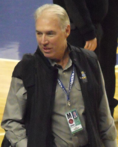 Mike Pratt after broadcasting a Kentucky Wildcats basketball game on the radio